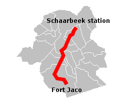 Itinerary of tramway line 92 in Brussels